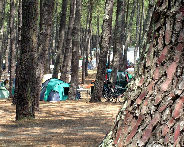 Trees in a distance of 2 - 5 m. Picture used as an illustration of the Olbers' paradoxon. Own photograph.